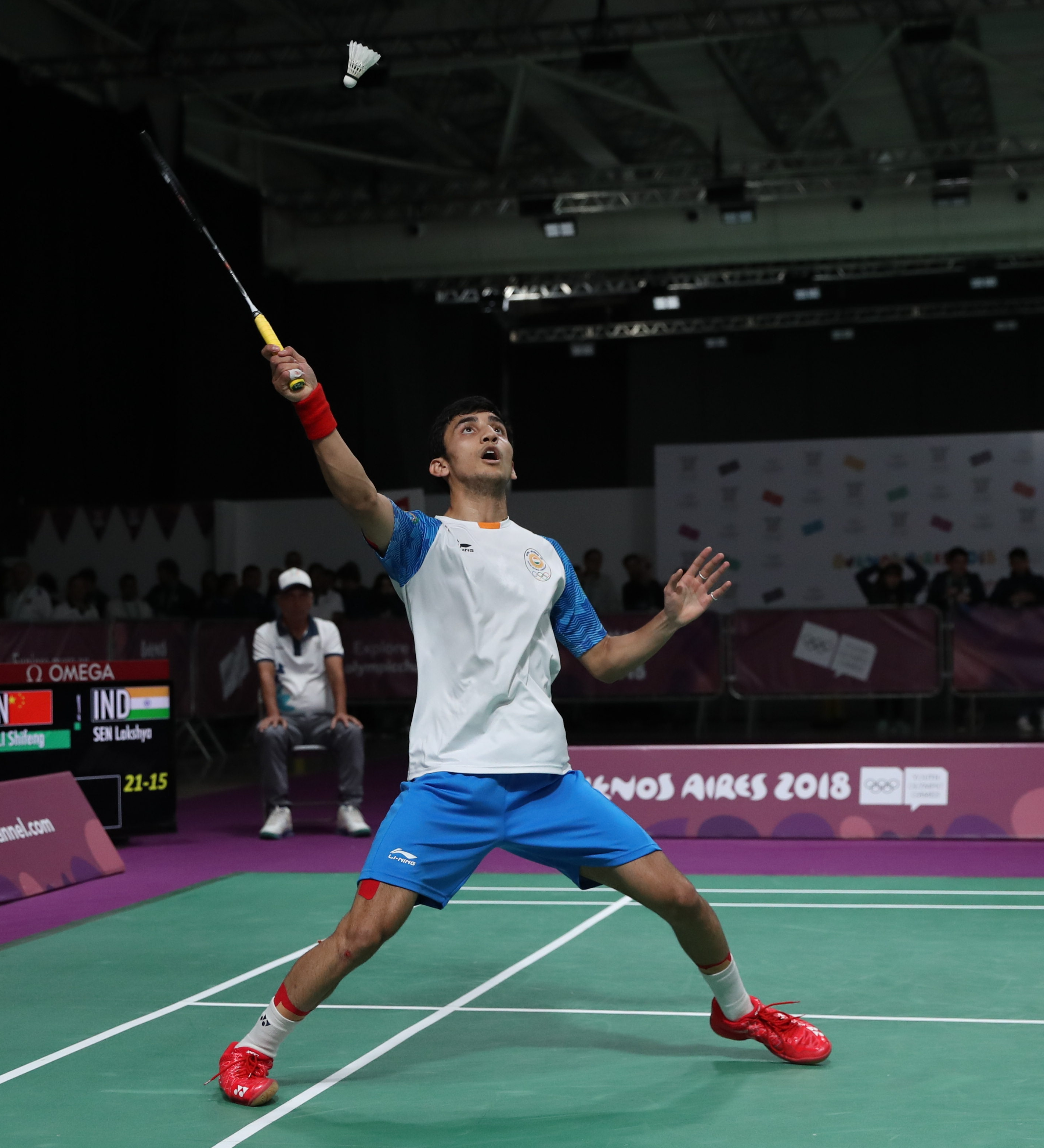 Final at the Boys Singles Badminton competition: Li Shifeng (China) vs. Lakshya Sen (India)